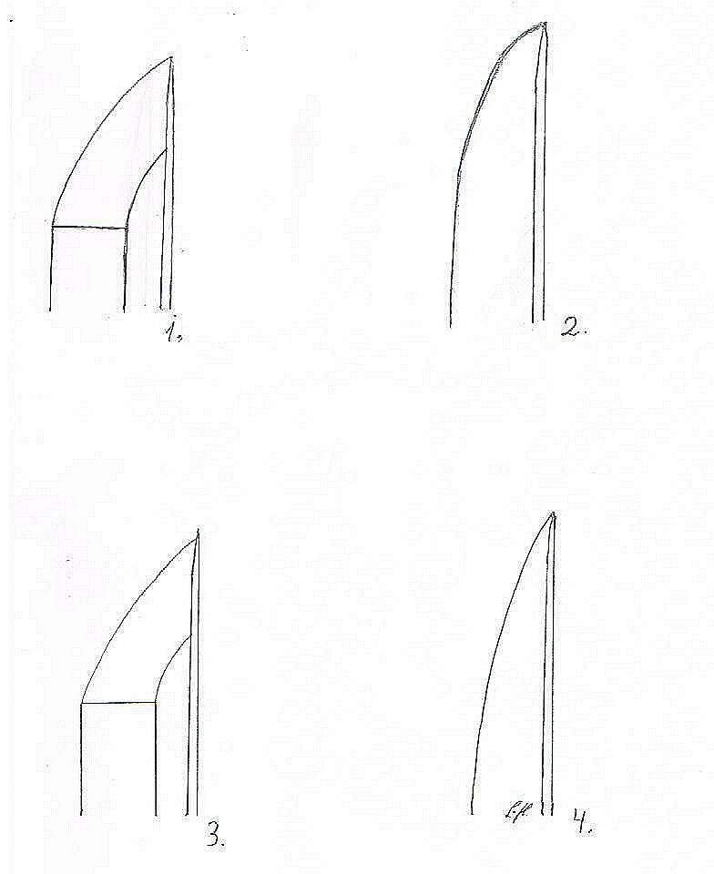 Types of the Fukura on japanese swords